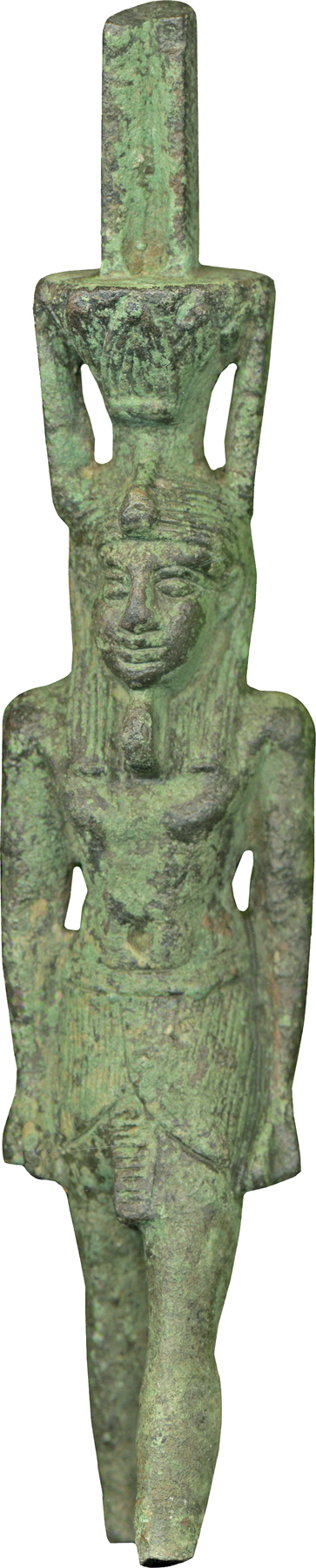 Nefertem was a god of renewal and the son of the creator god Ptah and his wife the lioness goddess Sakhmet. The triade Ptah, Sakhmet, Nefertem were mainly worshipped in Memphis. The bronze figurine of the god Nefertem has a loop on its back between the head and the crown. This indicates that the object, which is too large to be just an amulet, was used in rituals and probably carried on a chain around the neck of a worshipper.